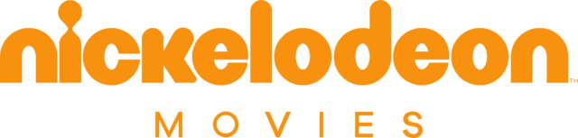 Nickelodeon Movies logo as of 2019